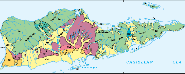 St. Croix geologic map, where Km is the Cretaceous Mt. Eagle Group, Kd is Cretaceous diorite, Kg is Cretaceous gabbro, Tbf is the Pliocene Blessing Formation, Tmb and Tlr are the Miocene Kingshall Limestone, Qab is Quaternary alluvium, and Qr is Quaternary reef.